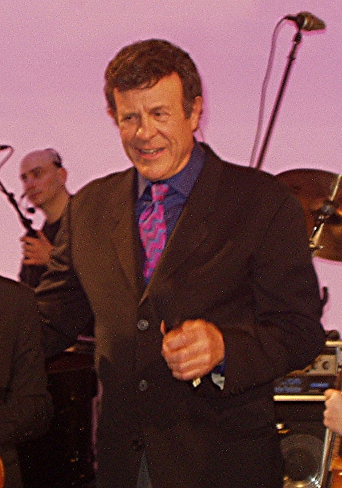 Bruce Morrow ("Cousin Brucie") on the set of the 2003 Variety Telethon